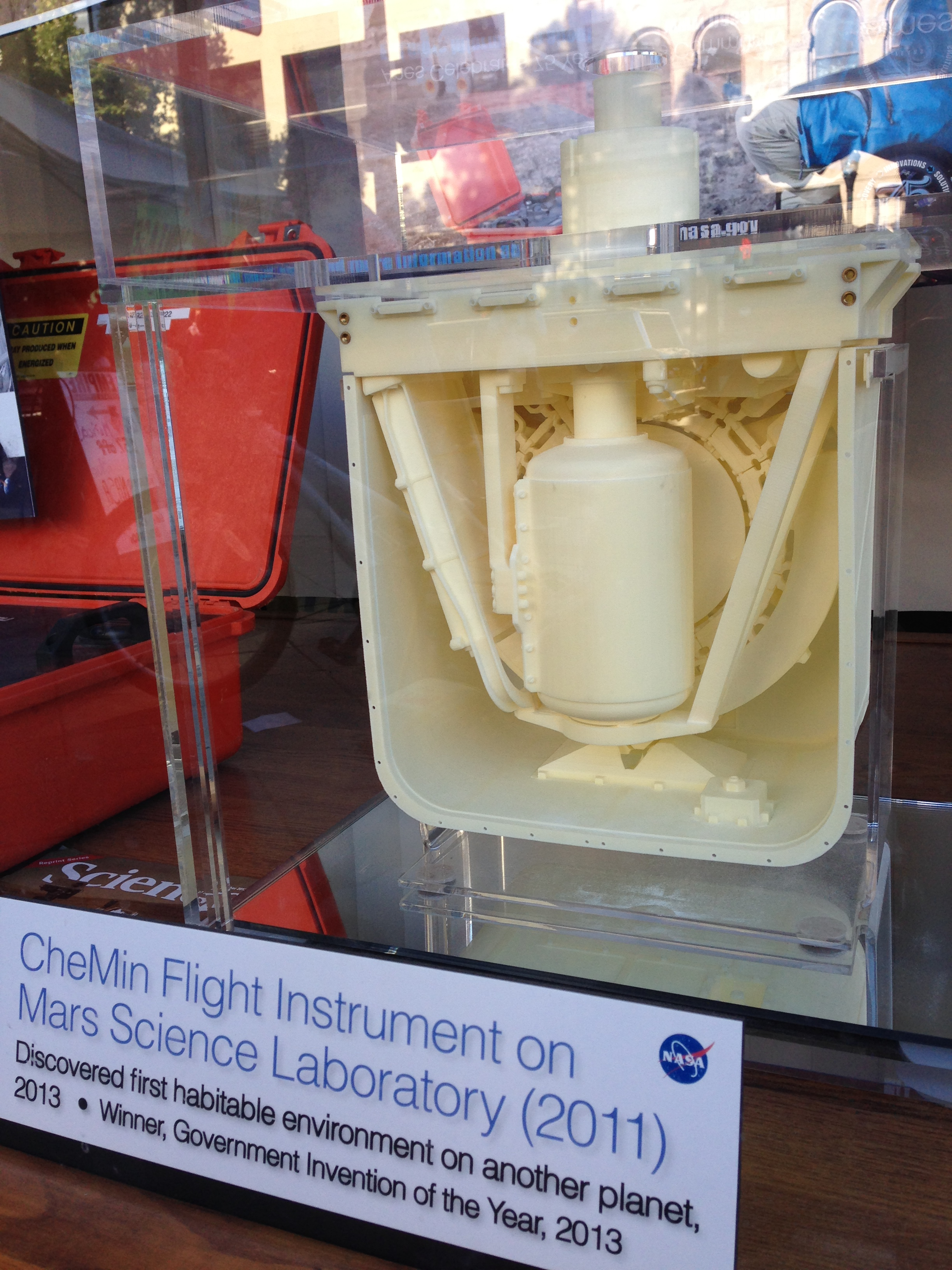 Discovered first habitable environment on another planet, 2013. Winner, Government Invention of the Year, 2013. On public display in downtown Mountain View, California, as part of NASA Ames' 75 year anniversary.